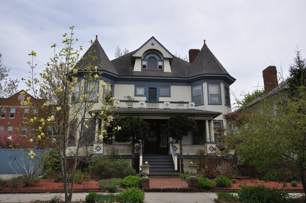 Elmwood Historic District, Providence, Rhode Island. A house on Lexington Street.